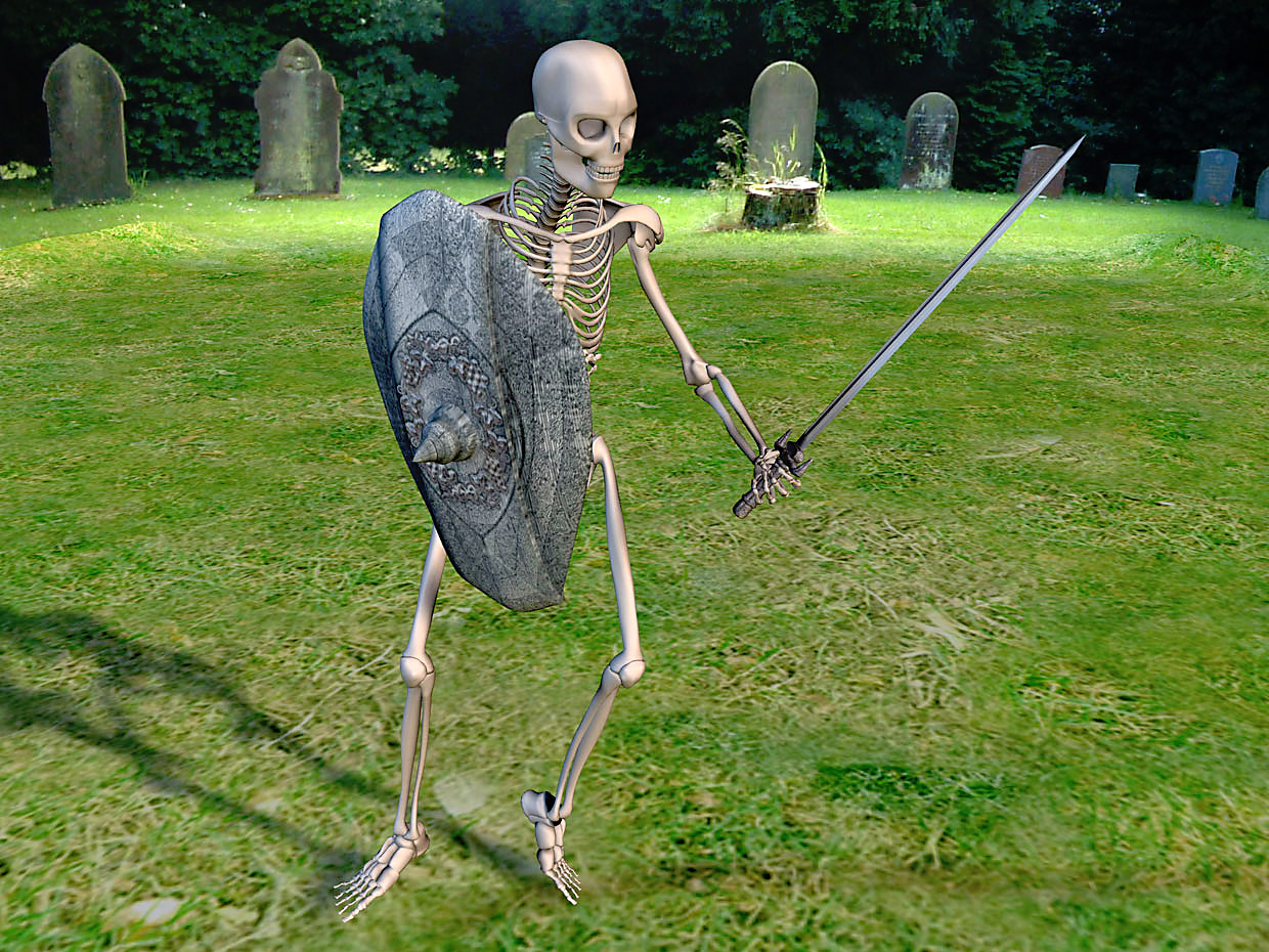 Skeleton Warrior, made by me with DAZ Studio